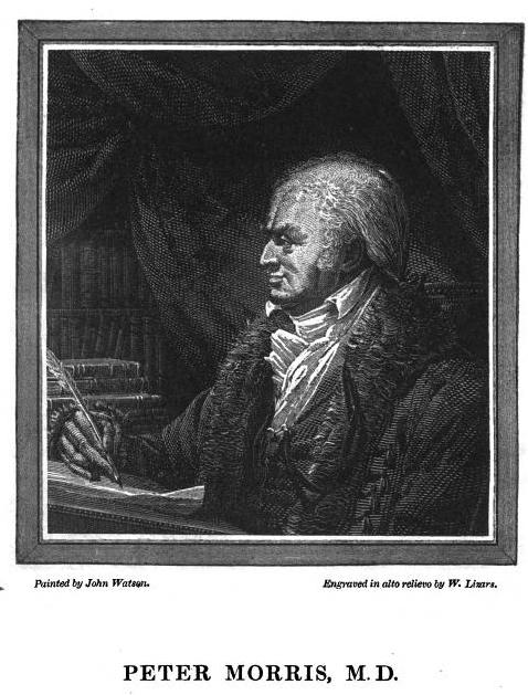 Portrait of the fictional Peter Morris M.D., from Peter's Letters to His Kinsfolk (1819) by John Gibson Lockhart.